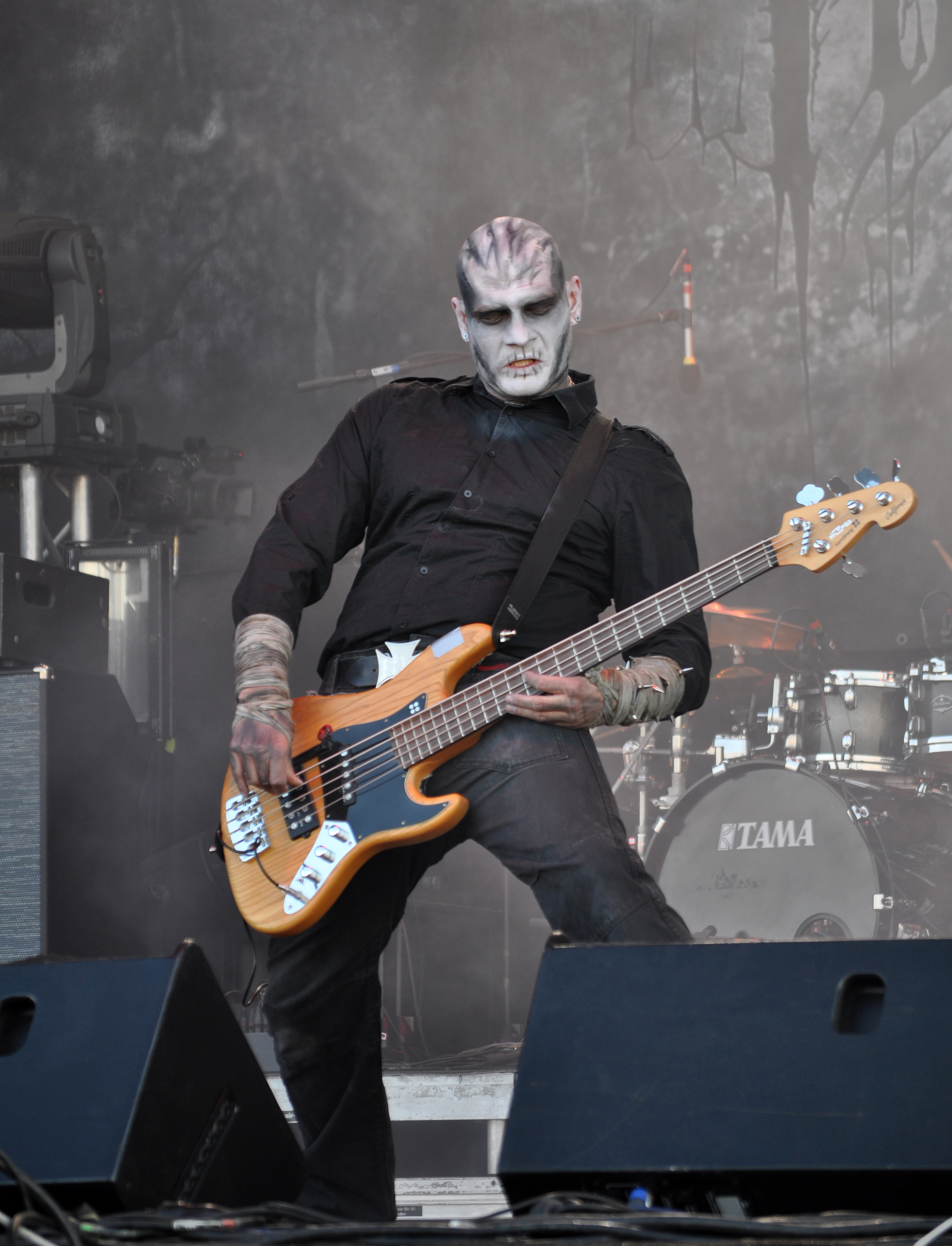 Dark Fortress at Party.San Open Air 2012